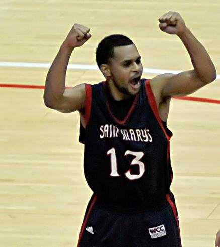 Patrick Mills, in his college days at Saint Mary's, in a game against San Diego State